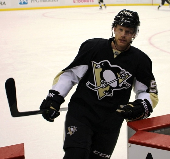 Pittsburgh Penguins defenseman Philip Samuelsson skating against the Calgary Flames, December 21, 2013 at Consol Energy Center in Pittsburgh, PA.